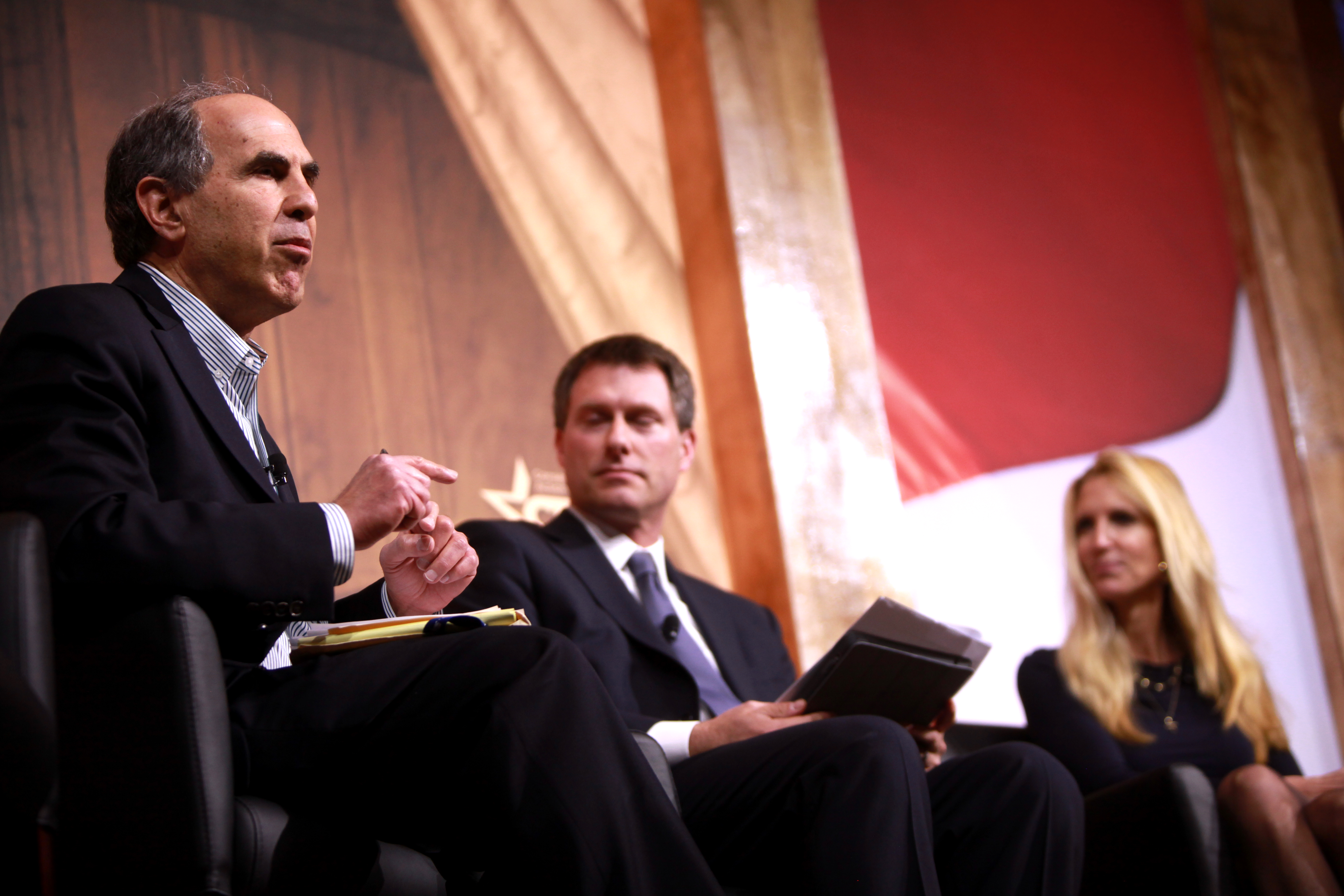 Mickey Kaus and Ann Coulter speaking at the 2014 CPAC in Washington, D.C.